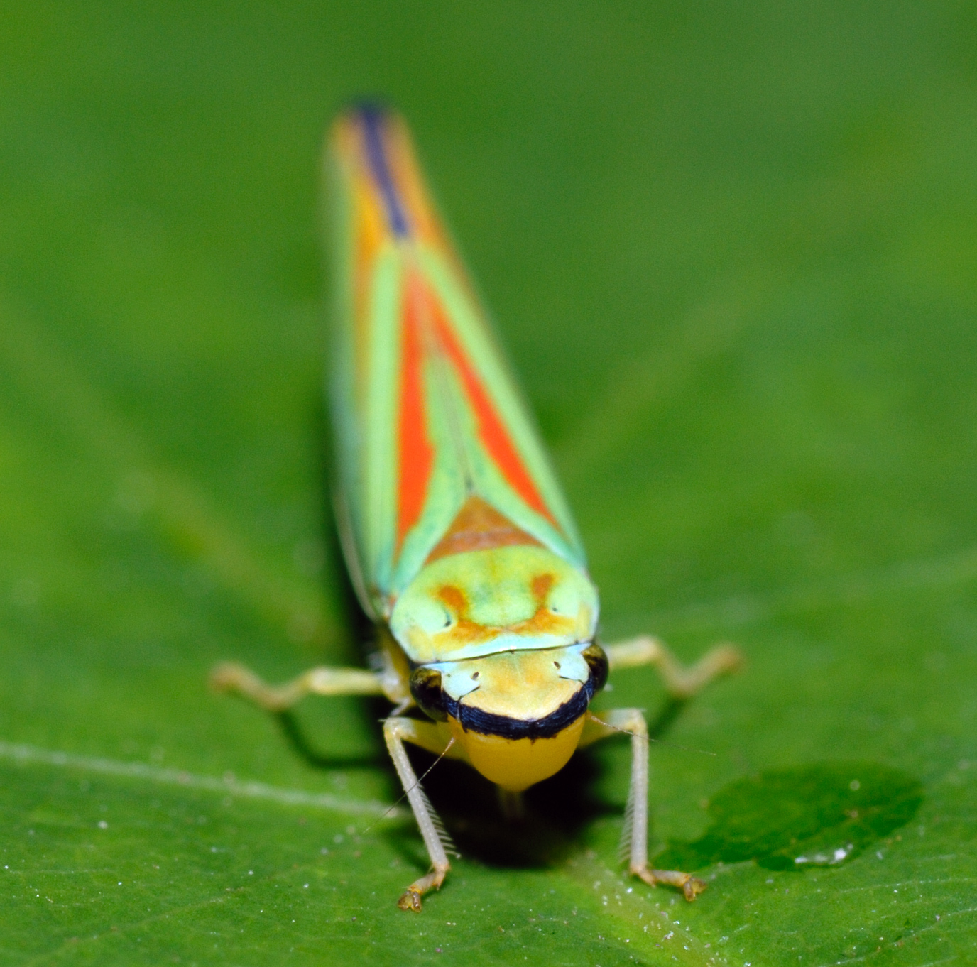 This image shows a Graphocephala fennahi from the front.